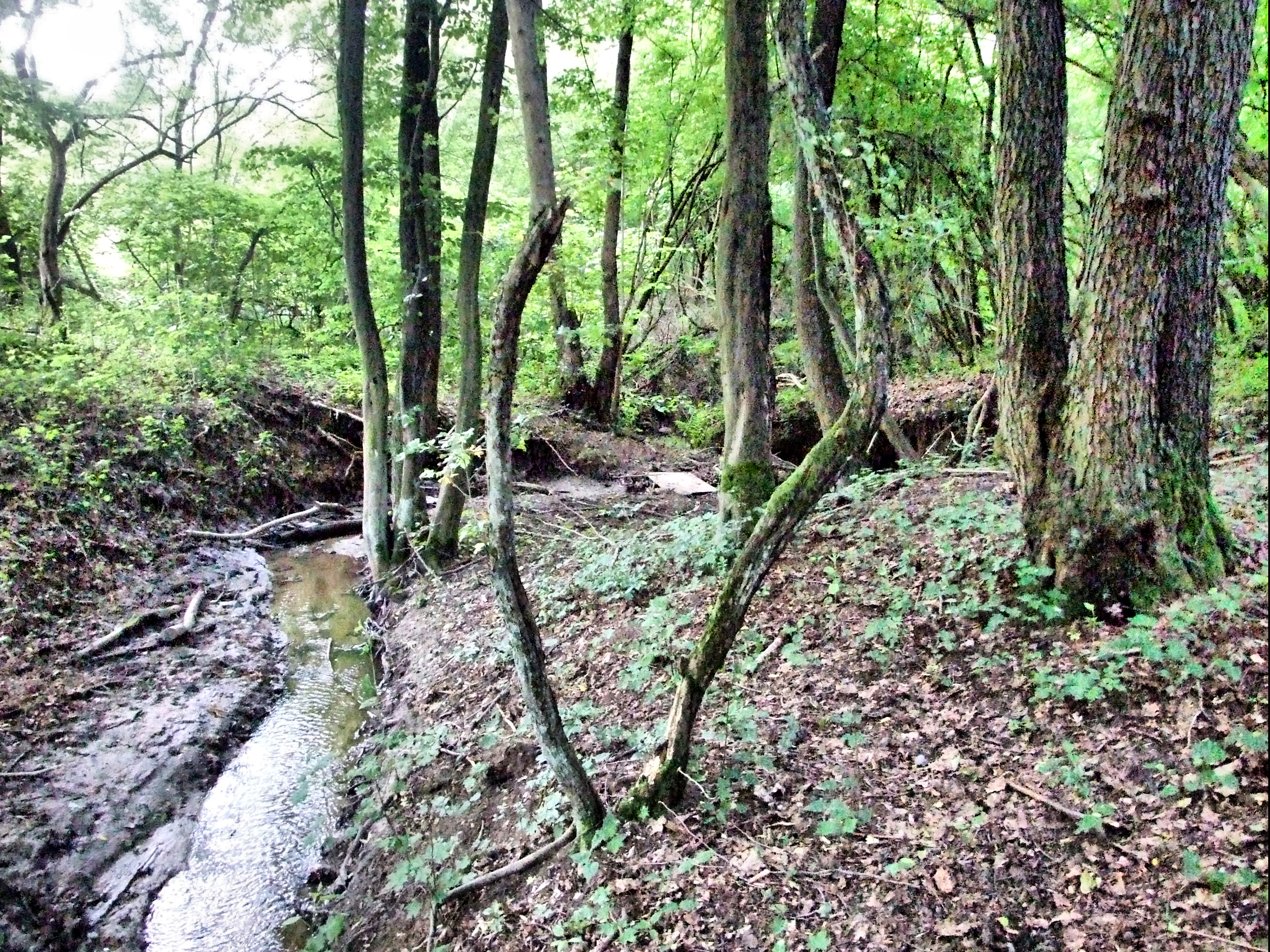 Gręziniec